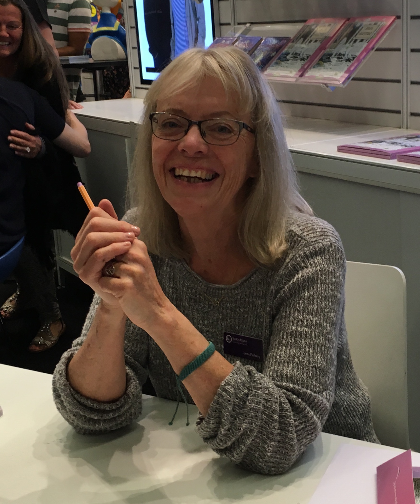 Lena Furberg signing her publishings at the Gothenburg book fair in 2016.